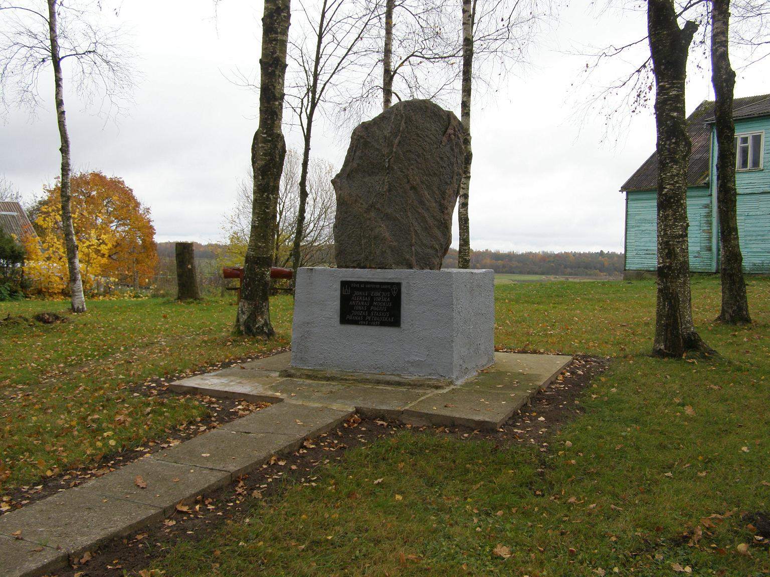 Šatės monument to partisans, Skuodas district, LithuaniaLietuvių: Šačių paminklas partizanams, Skuodo rajonas, Lietuva